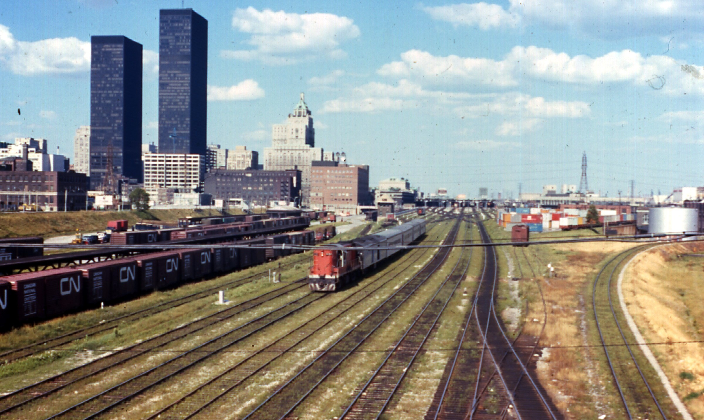 Railway lands in Toronto, Ontario, Canada. In the 1960's, CN purchased new locomotives and passenger cars for the Toronto-London-Windsor-Sarnia service. This equipment did not survive after CN's passenger service was turned over to VIA Rail Canada.